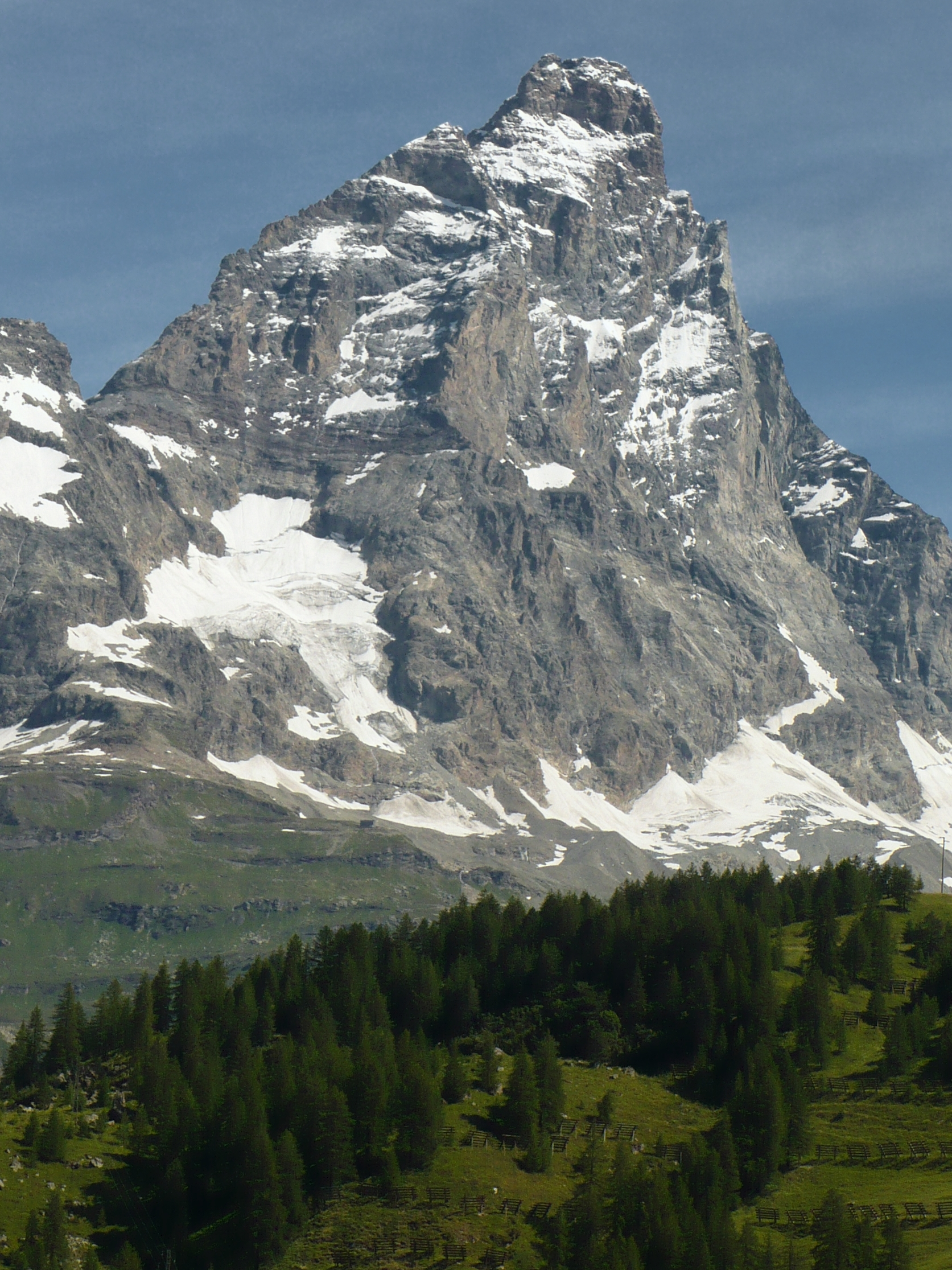 Matterhorn south face